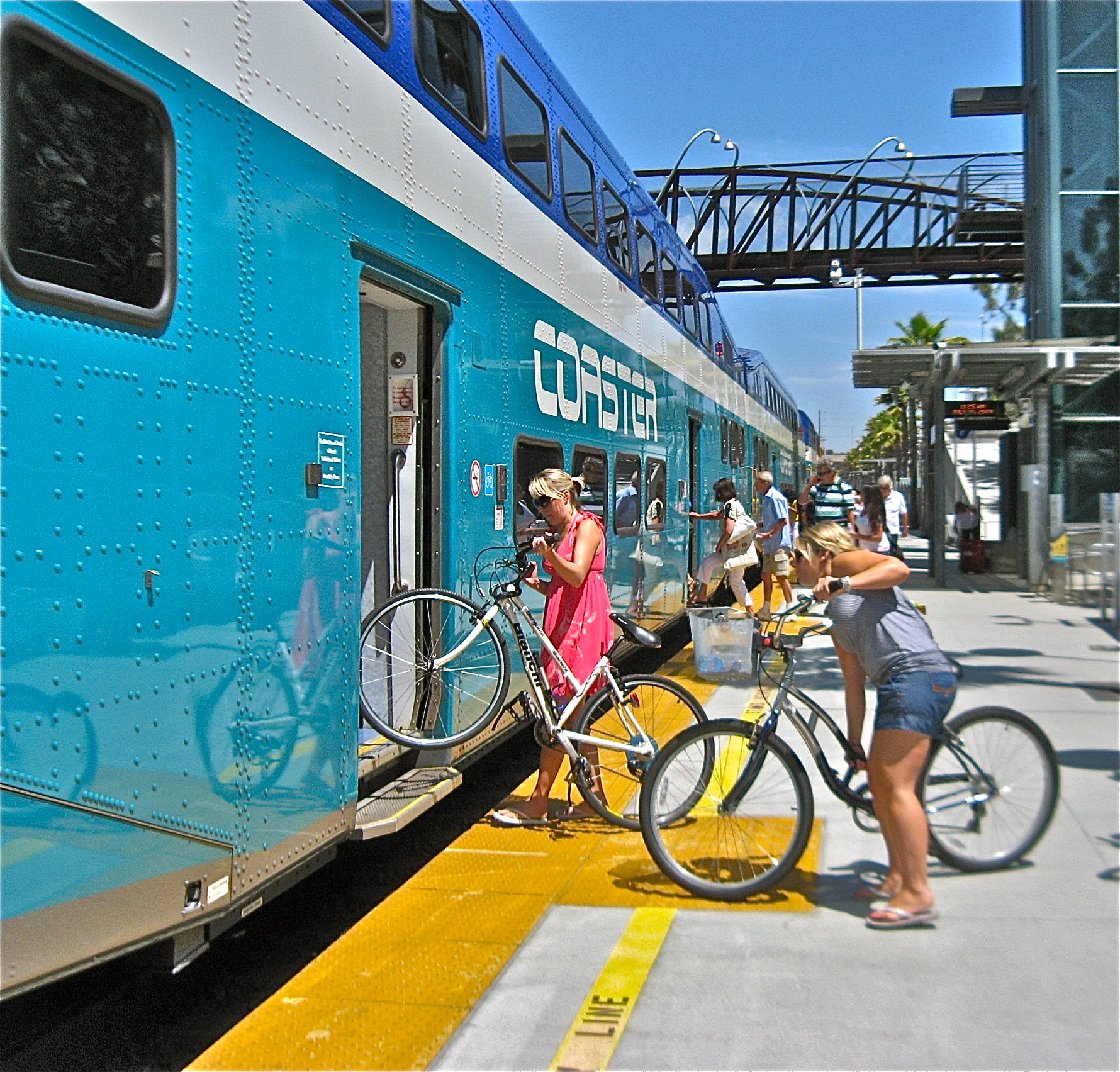 Cyclists embark Coaster line at Santa Fe Station in San Diego on Bike to Beach Day